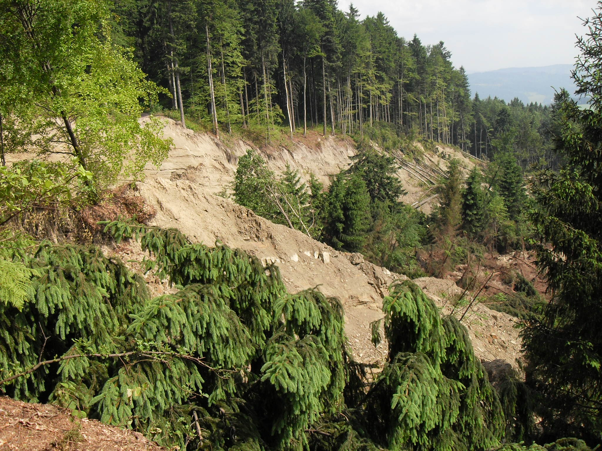 Landslide on slopes of Girova